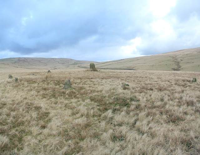 Maen Mawr standing stone and circle. This circle of small stones and one large one are on a hill at the side of the road from Glyntawe to Trecastle.